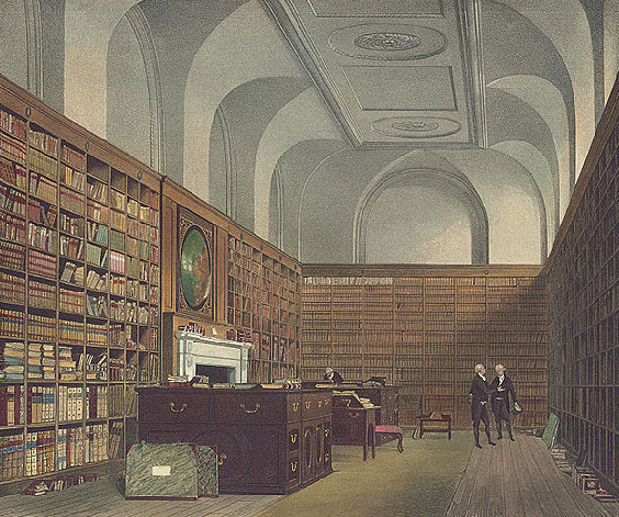 The King's library at Buckingham House